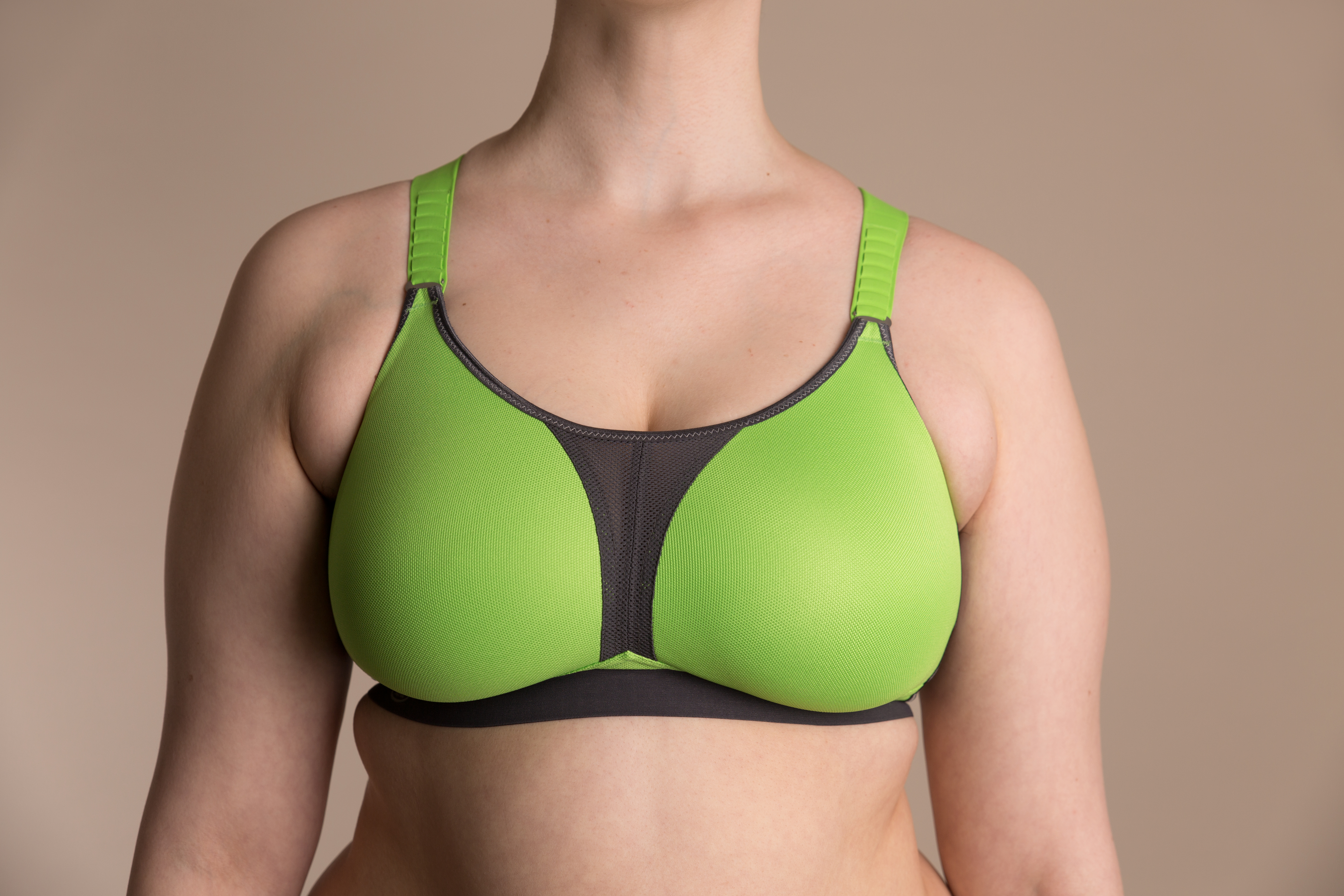 Juno, 19 year old, non-binary person